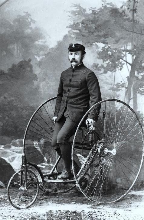 Photograph, Mr. McLeod, Bicycle Club, Montreal, QC, 1885, Wm. Notman & Son, Silver salts on glass - Gelatin dry plate process - 17 x 12 cm